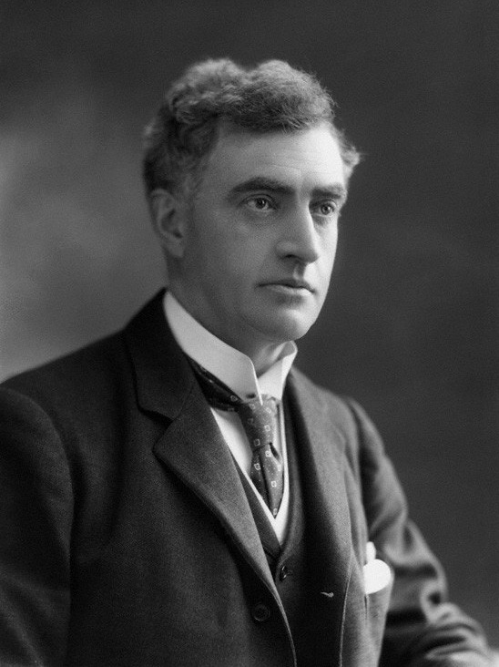 Nathan Raw